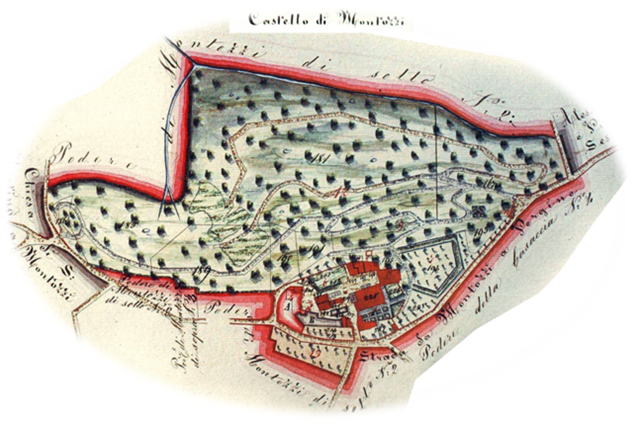 Map of the Montozzi Castle, 1866